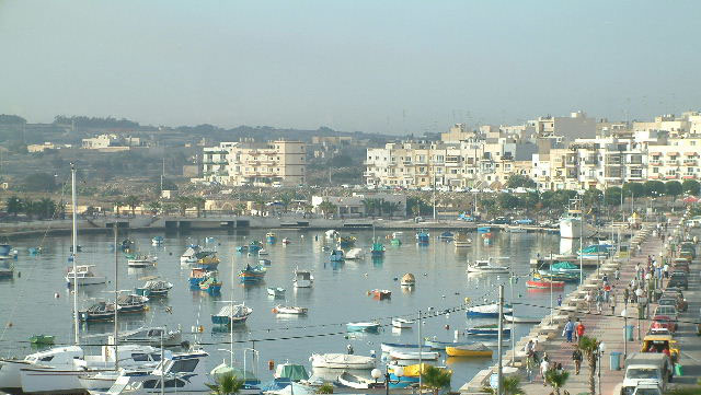 Marsascala Waterfront